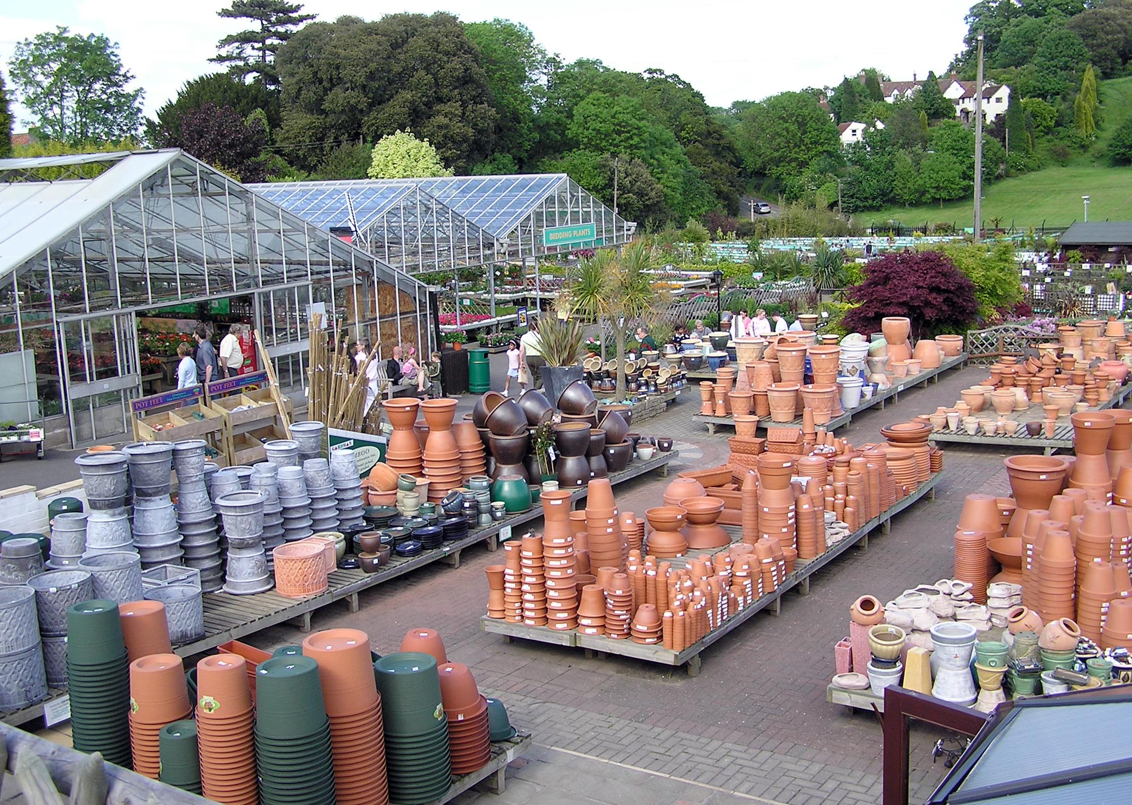 Part of Almondsbury Garden Centre, near Bristol, England. Photographed by Adrian Pingstone on June 30th 2005 and placed in the public domain.